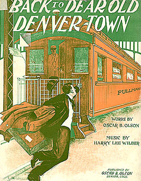 Source: Oscar B. Olson publisher Web